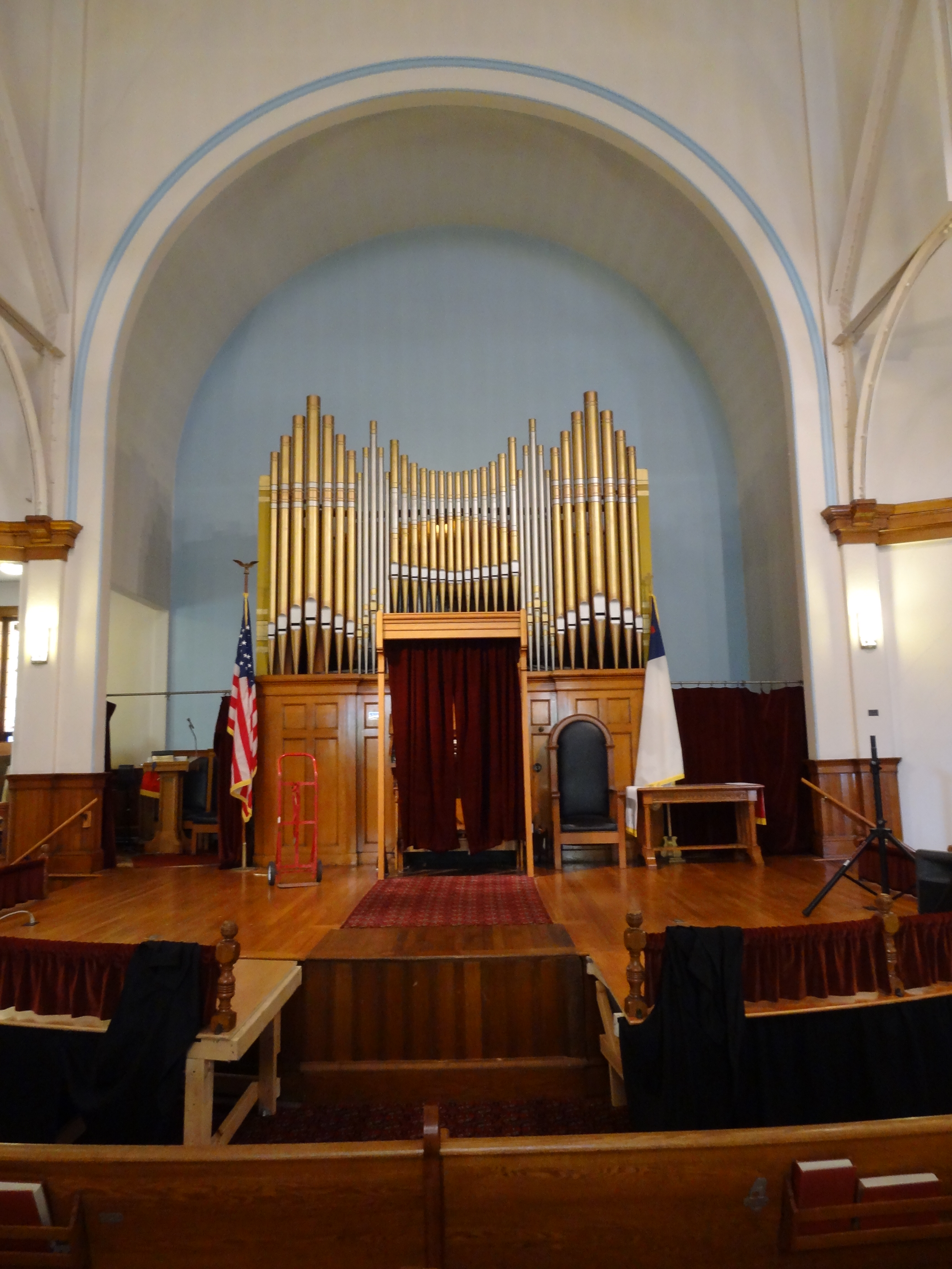 The chancel and organ of Pawtucket Congregational Church, on the northeast wall of the sanctuary. A temporary extension to the chancel to make space for a play was almost complete at the time of this photograph; the extension is missing its center piece. Located at 15 Mammoth Road, Lowell, Massachusetts.